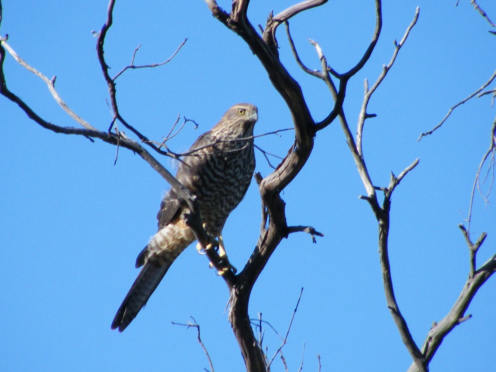 A juvenile Brown Goshawk in Langwarrin, Melbourne, Victoria, Australia.